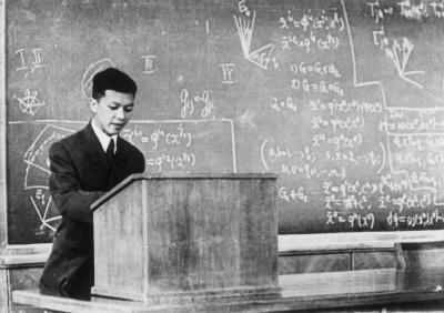 Gu Chaohao ,pinyin: Gǔ Chāoháo; Wade–Giles: Ku Ch'aohao; May 15, 1926 - Jun 24, 2012) is a Chinese mathematician.